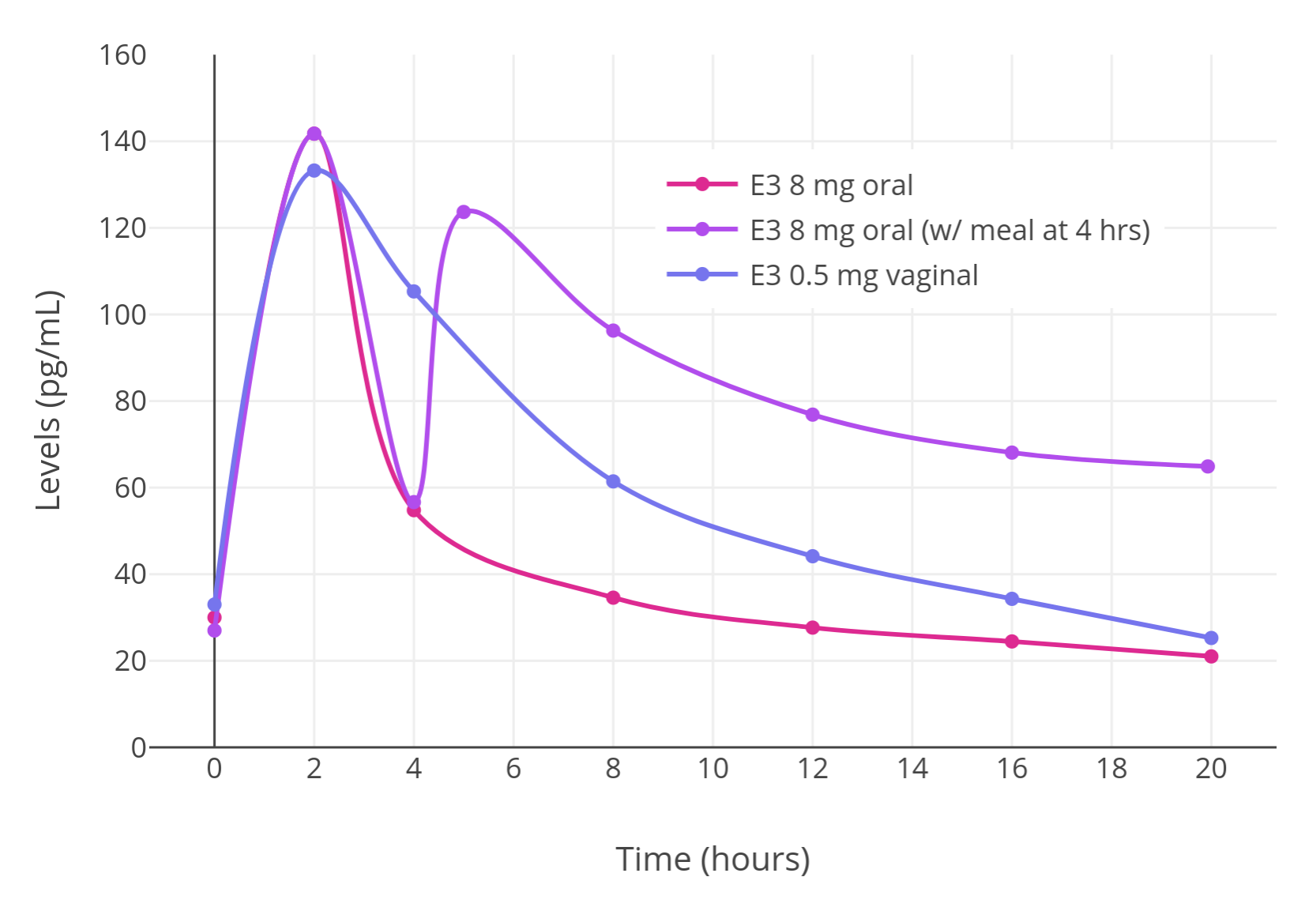 Serum levels of estriol after a single dose during continuous daily administration of 8 mg oral estriol (with or without a meal at 4 hours) or 0.5 mg vaginal estriol in women. Source of values: (2005). "Pharmacology of estrogens and progestogens: influence of different routes of administration". Climacteric 8 Suppl 1: 3–63. PMID 16112947.